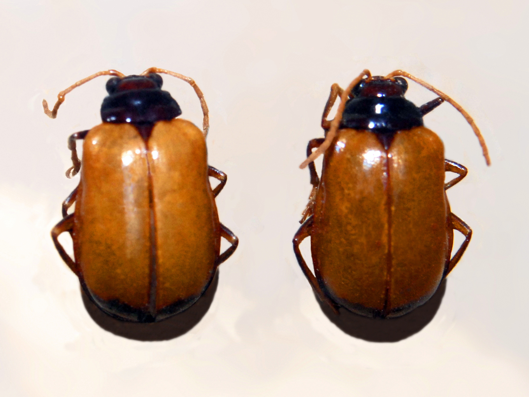 Aplosonyx nigricollis from Nias. Mounted specimen